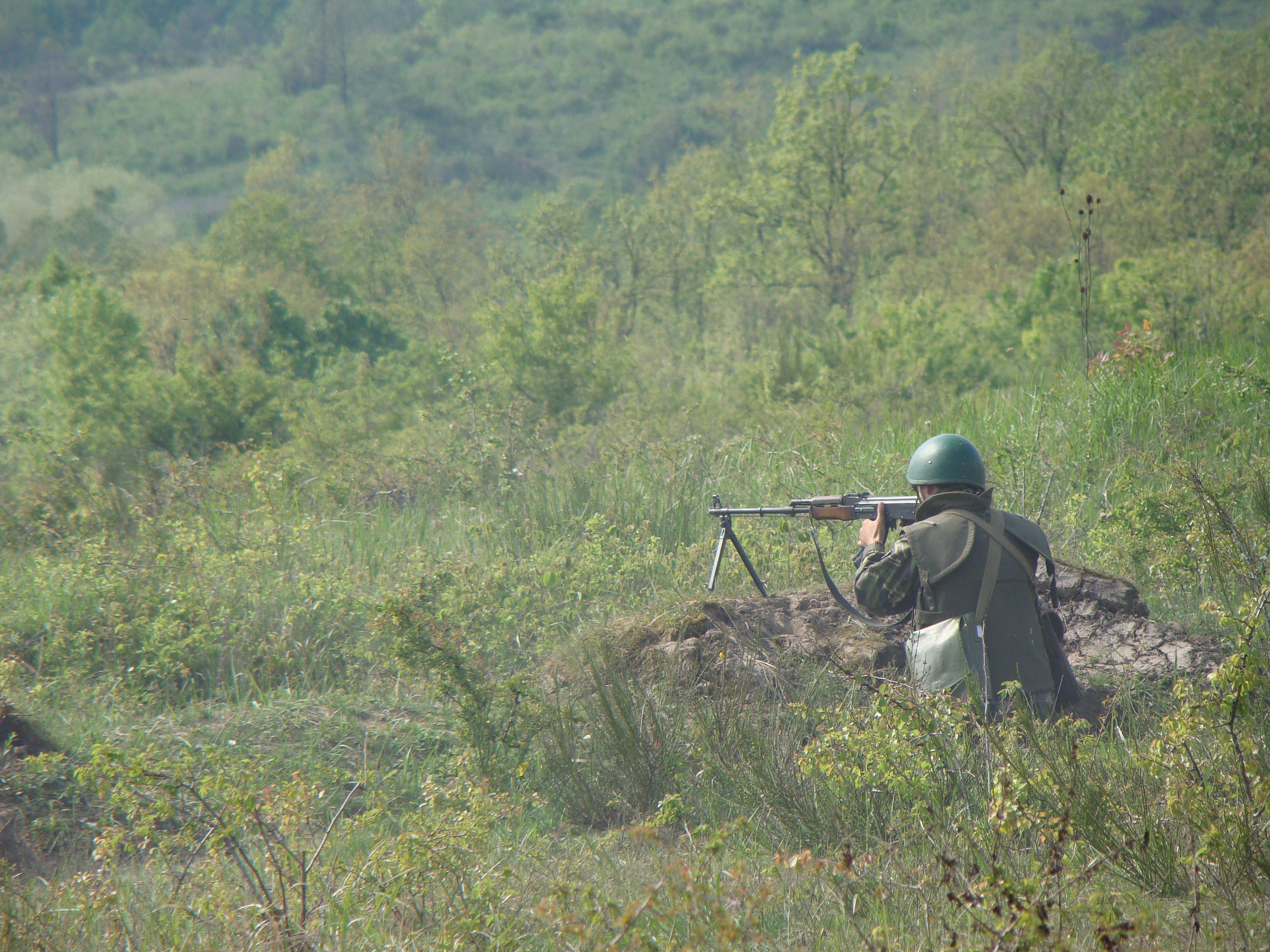 Romanian soldier during a military exercise of the 191st Infantry Battalion.